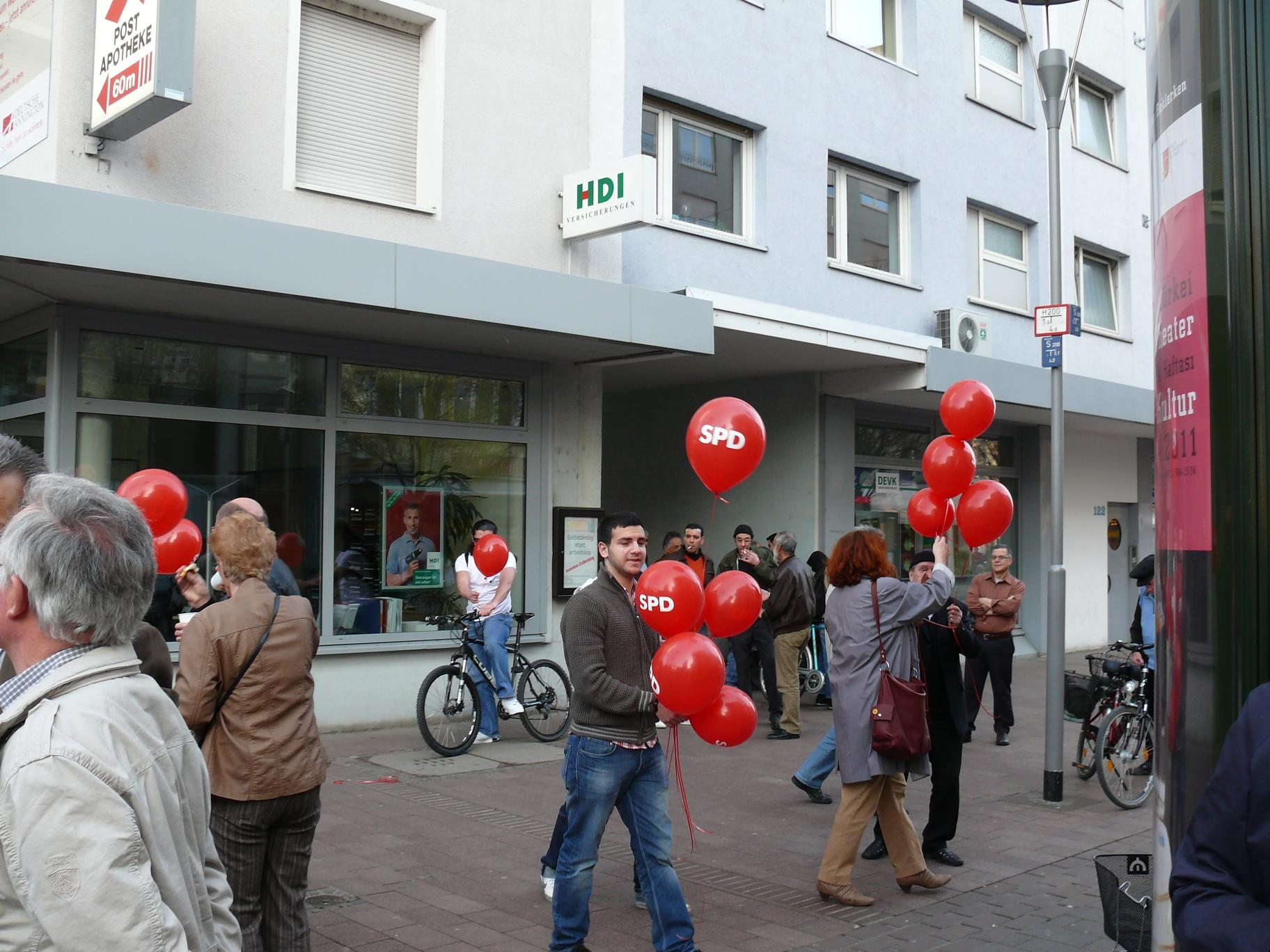 election campaign SPD in Ludwigshafen, Germany